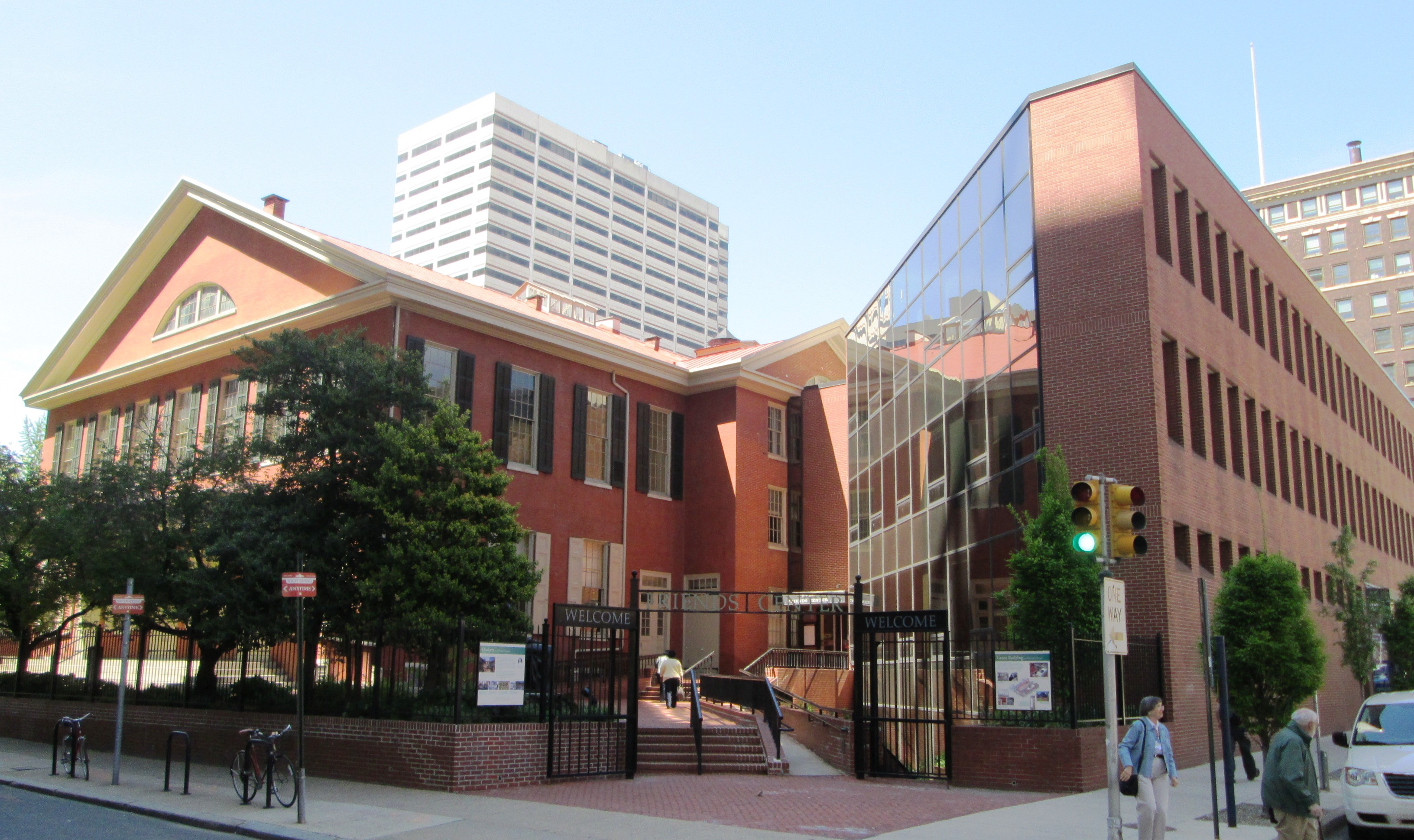 The Race Street Meetinghouse is a historic and still active Quaker meetinghouse at 1515 Cherry Street at the corner of N. 15th Street in the Center City area of Philadelphia, Pennsylvania. The meetinghouse served as the site of the Yearly Meeting of the Hicksite sect of the Religious Society of Friends (Quakers) from 1857 to 1955. It was built in 1856 by the Philadelphia Yearly Meeting and what is now known as Central Philadelphia Monthly Meeting.